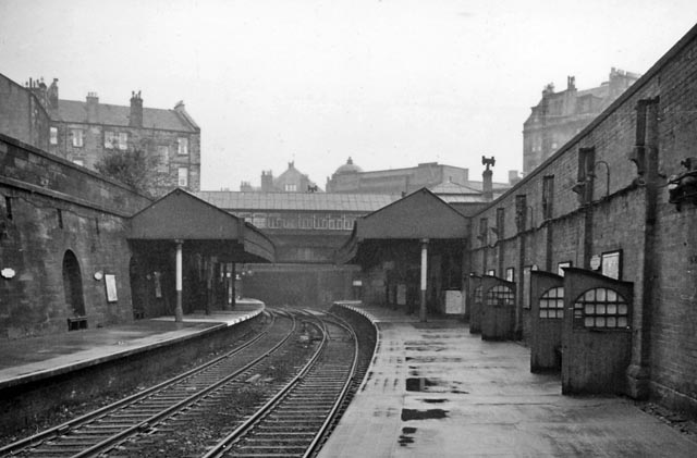 Bridgeton Cross Station. View westward, towards Glasgow Central Low Level. Since 11/1979 called 'Bridgeton'. For further details see NS6064 : Bridgeton Cross, at London Road and Dalmarnock Road; Station entrance to left. What a dump!